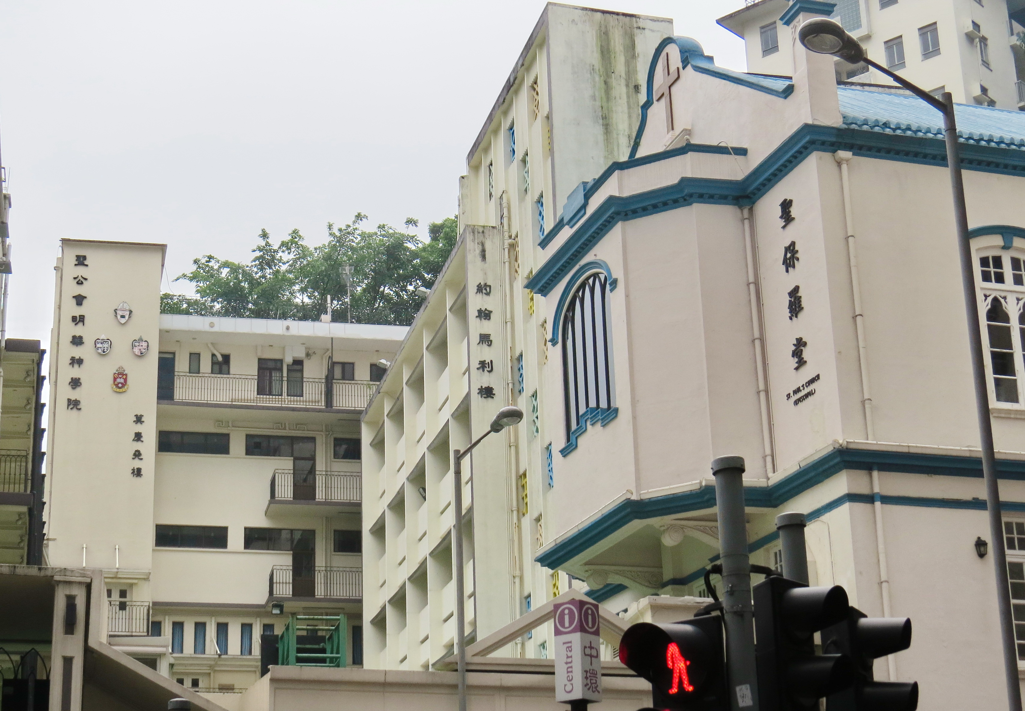 Sheng Kung Hui Ming Hua Theological College and St. Paul's Church, Hong Kong.